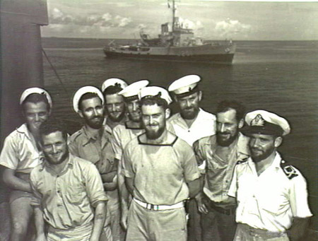 AWM Caption: NEW BRITAIN, 1945-09. A GROUP OF AUSTRALIAN SAILORS IN THE RABAUL AREA. BATHURST CLASS MINESWEEPER/CORVETTE HMAS DUBBO IS IN THE BACKGROUND.